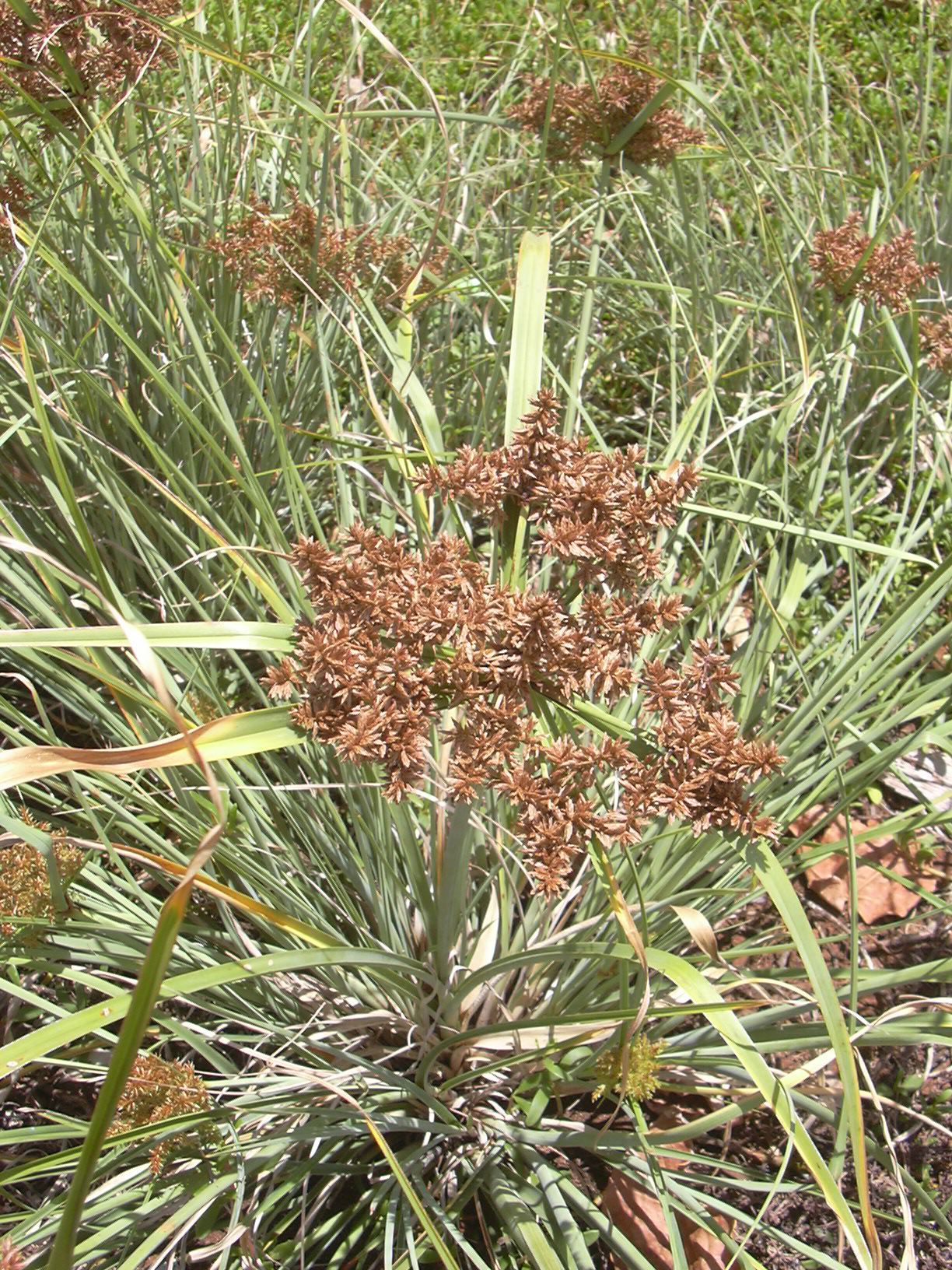 Cyperus javanicus (seeds). Location: Maui, Kanaha Beach